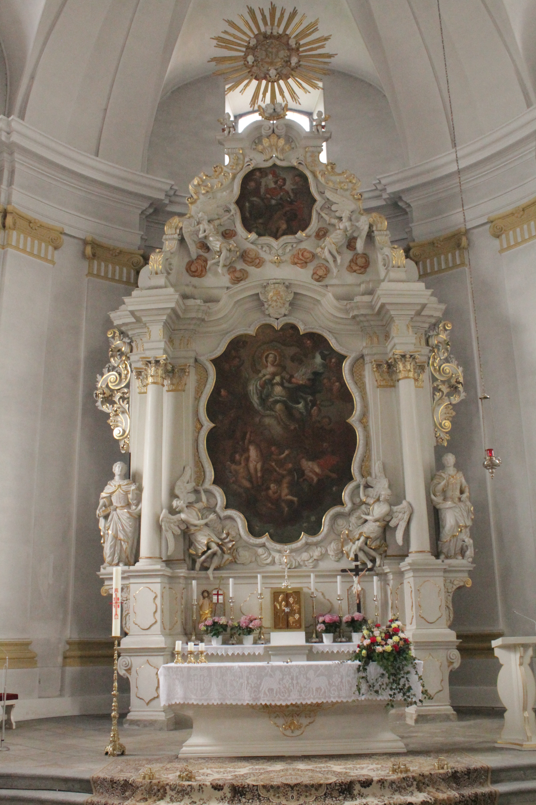 The Baroque altarpiece of St Martins in Nebelschütz